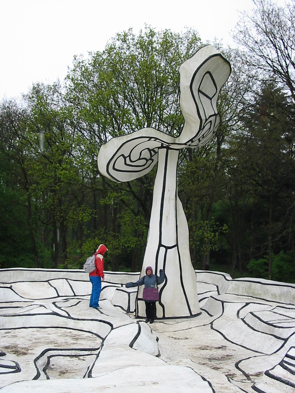 Jardin d'émail by Jean Dubuffet, sculpture garden at Museum Kröller Müller. (Sorry: I, User:Ellywa, am the black figure, the red figure is my other daughter). These people indicate however the enormous scale.